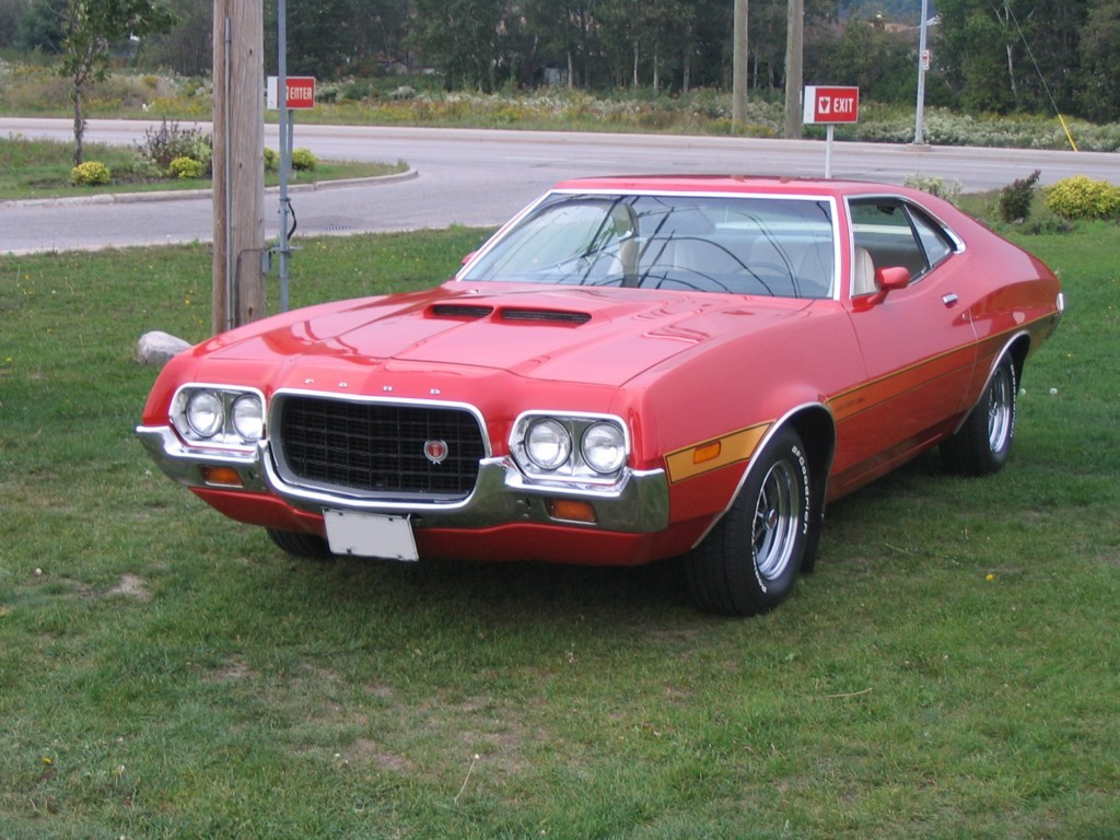 1972 Ford Gran Torino Sport 2-Door SportsRoof - This is a photograph taken by the author of his own vehicle